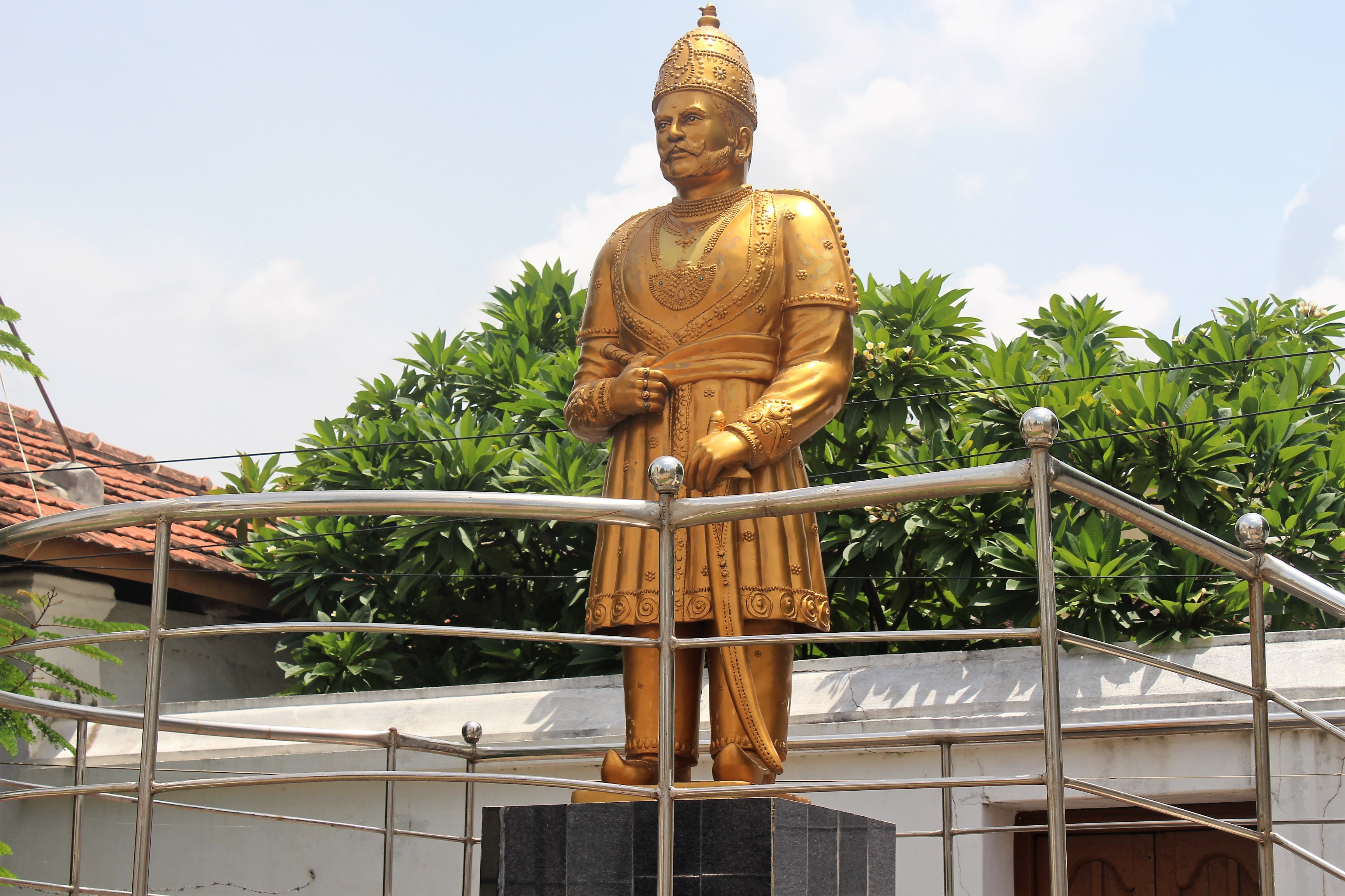 Raja Vasireddy Venkatadri Nayudu's Fort in Vijayawada.